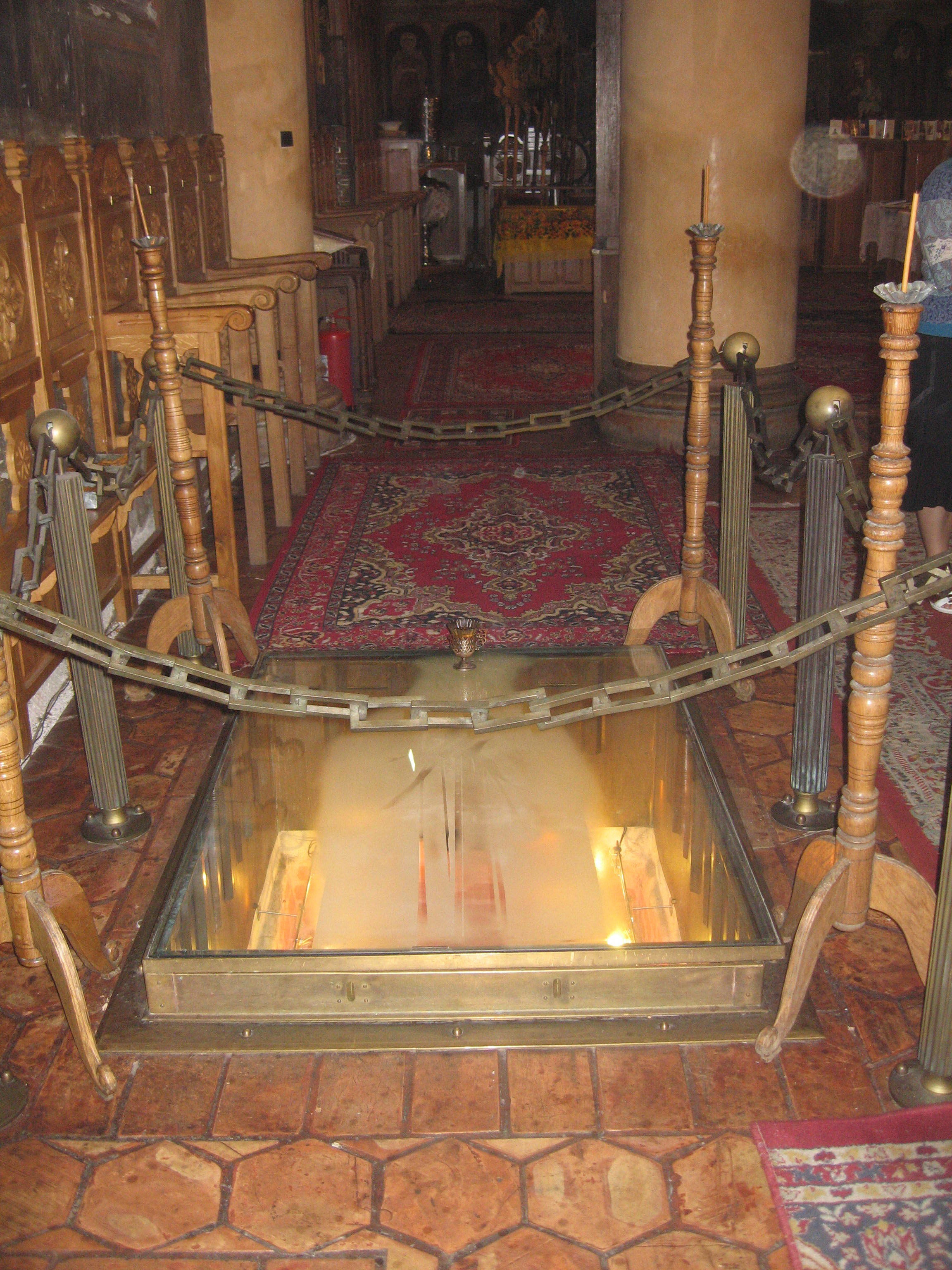 Mirăuţi Church in Suceava - the tomb inside the church.